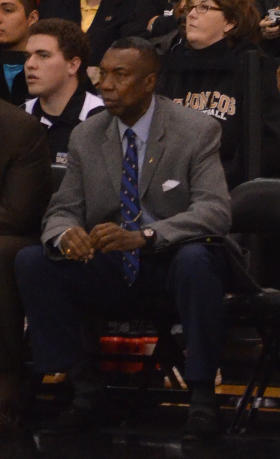 Steve Hawkins, head men's basketball coach of Western Michigan University, in a game against Oakland University in 2011.